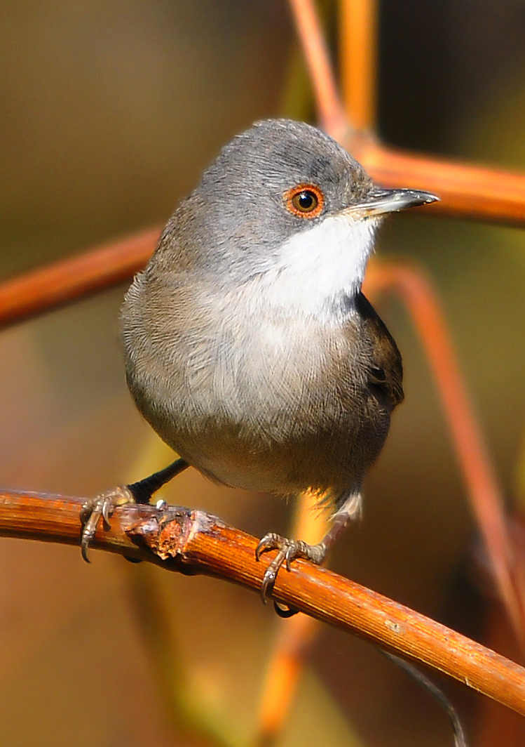 Sardinian Warbler Sylvia melanocephala. Portugal.